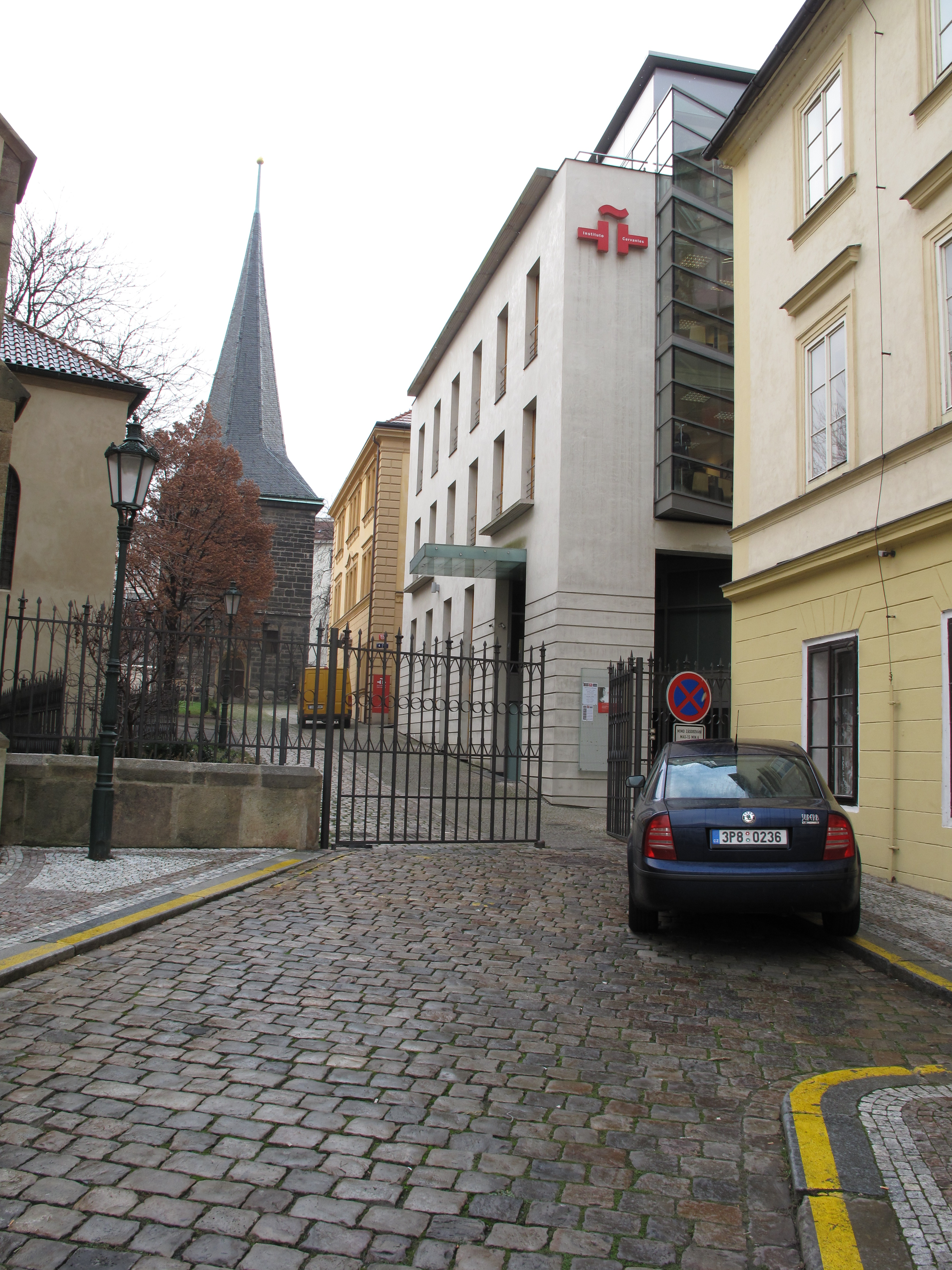 New and old building (behind) building: Cervantes Institute (in Spanish language: Instituto Cervantes), Na Rybníčku Střeet, Prague, Czech Republic. On the end of the street the bell tower.